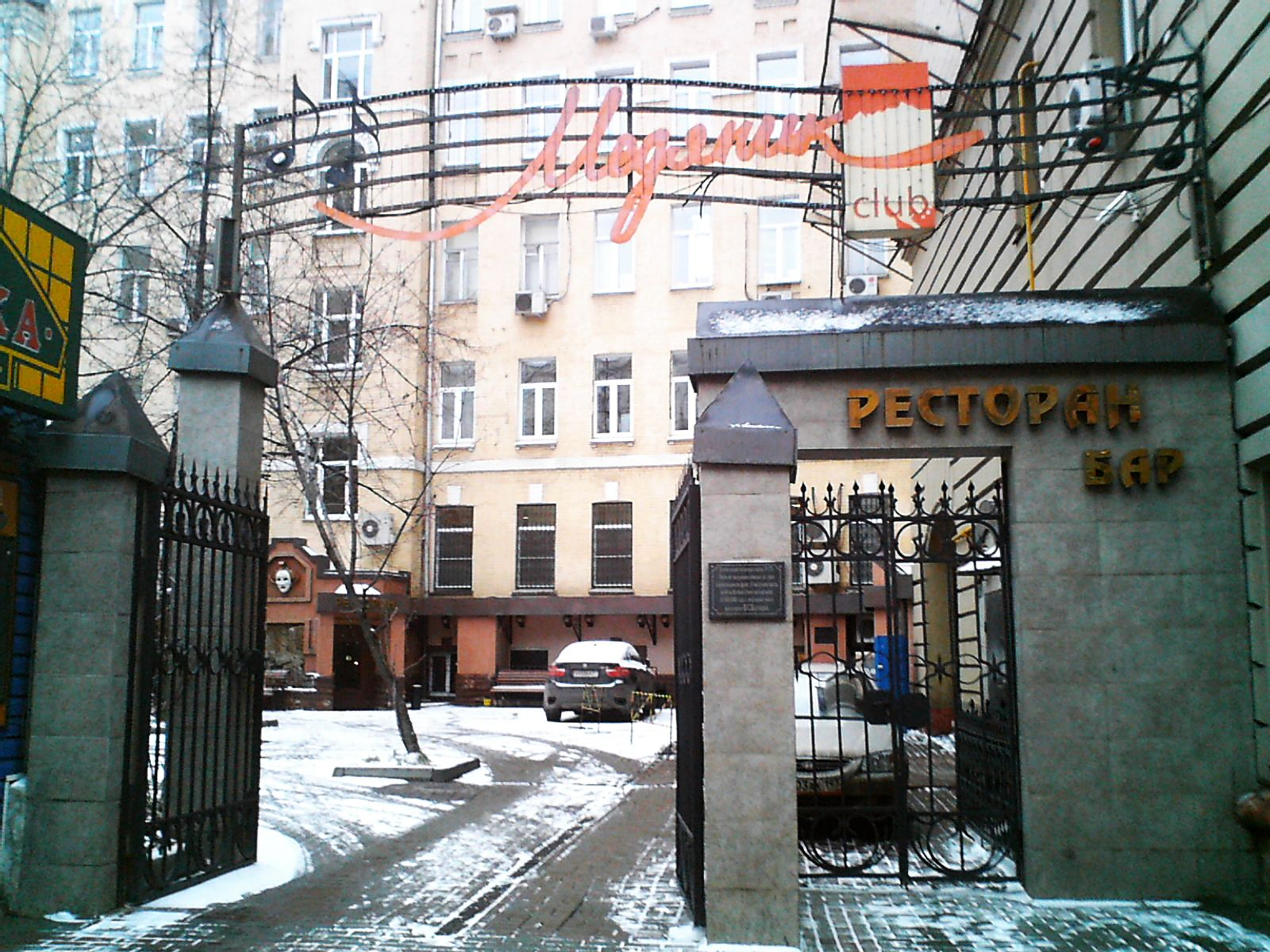 In the Moscow School 273 Vladimir Vysotsky studied in 1945-1946